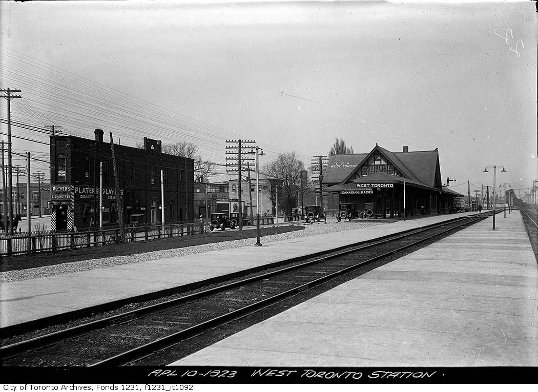 West Toronto Station - April 10, 1923